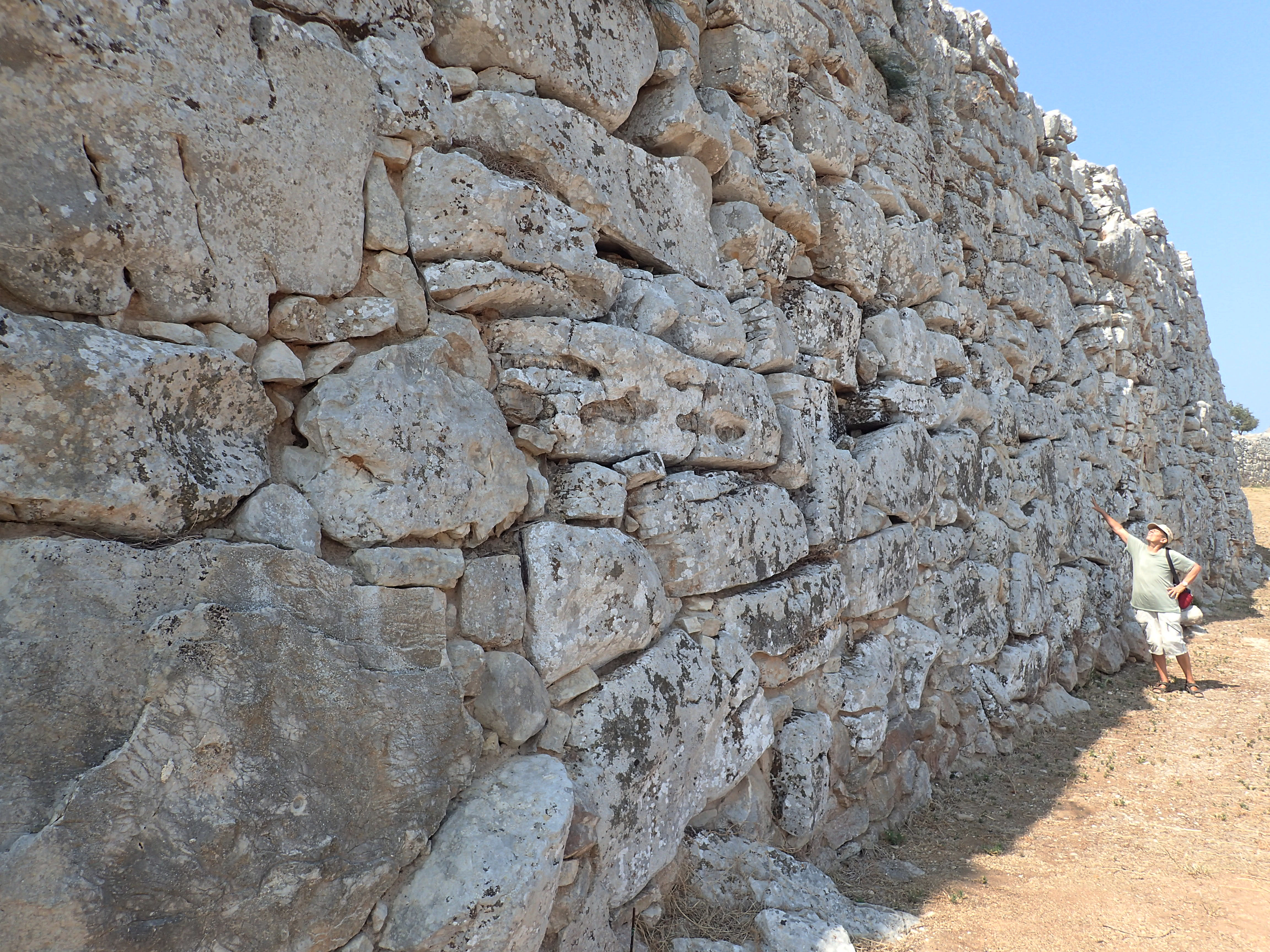 Teichos Dymaion in Greece, Peloponnese, Southwest of Patras